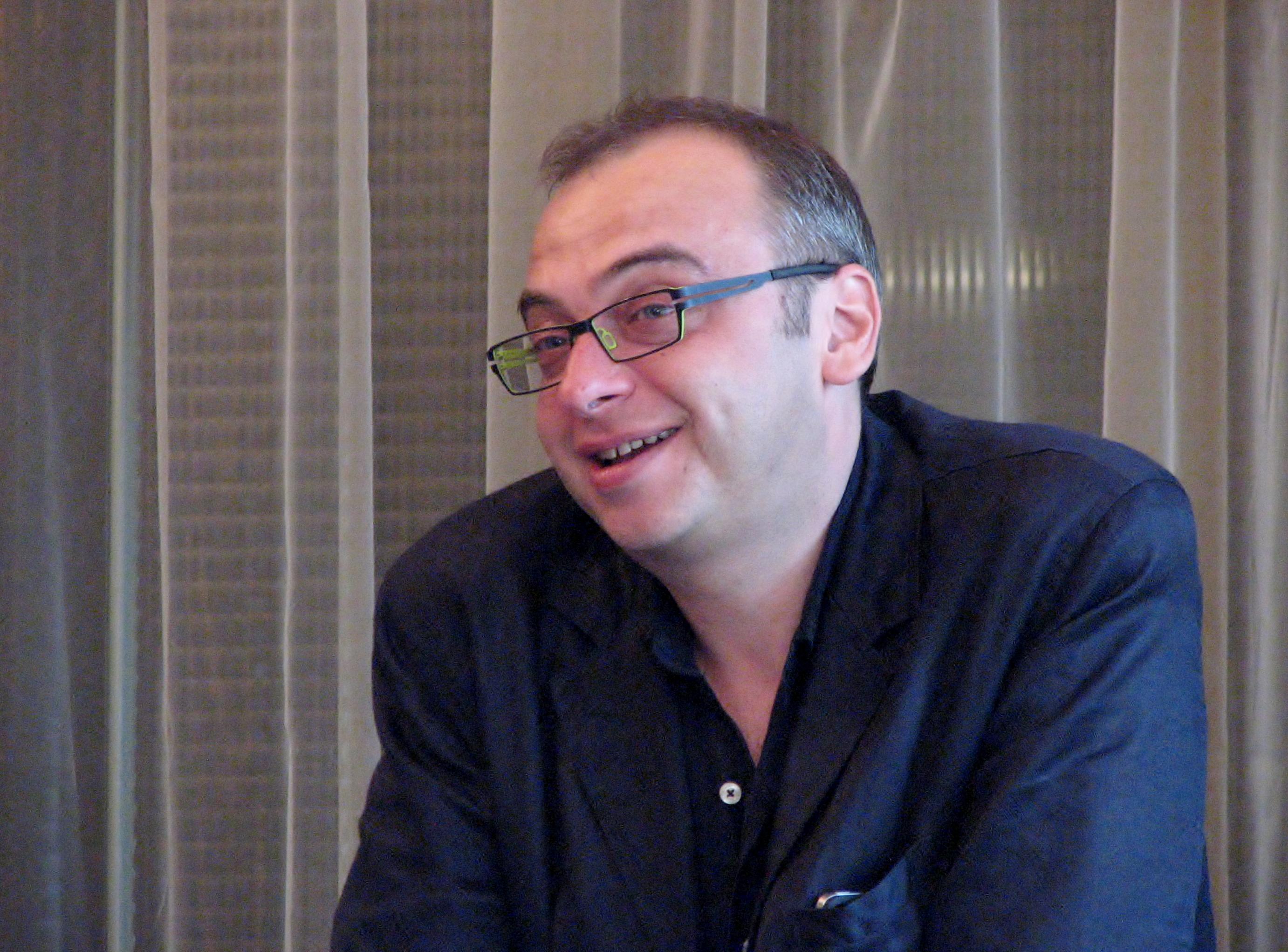 Dmitry Alexandrovitch Bertman during Saaremaa Opera Days